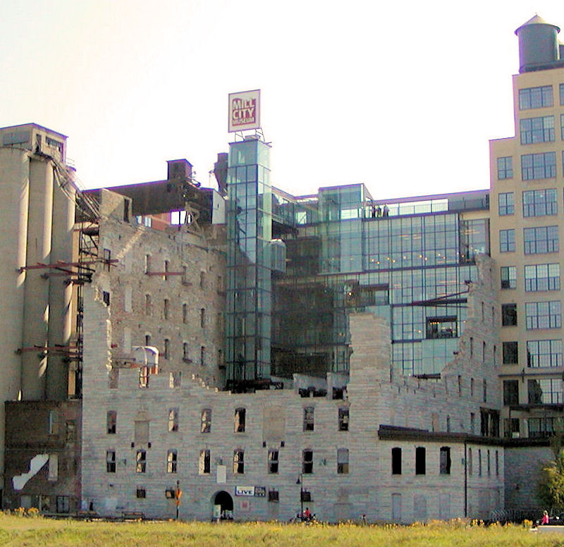 The Minnesota Historical Society's Mill City Museum in the Washburn "A" Mill in Minneapolis, Minnesota, USA. Formerly the Washburn-Crosby Company which became General Mills. Photo by William Wesen 9/13/06